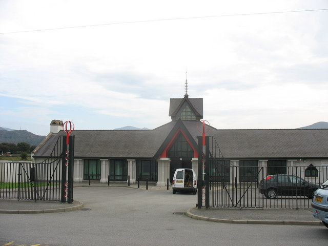 Ysgol Gynradd Penisarwaen Primary School. Opened 1992, it replaced the old school at Tanycoed. Ysgol Penisarwaen (Penisa'r Waun(sic) is known only to the Ordnance Survey) - caters for children from 3-11. At 11 they transfer to Ysgol Brynrefail, Llanrug SH5363.